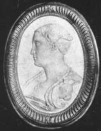 Cameo of Francesca Caccini, also known as "la Cecchina" (1587 – after 1641), a Baroque composer, lutenist, and singer. The cameo depicting her at approximately age 30 was found in the Palazzo Rospigliosi in Pistoia. This image was published in Bonaventura, A.. "Un ritratto della Cecchina", Cultura musicale, Vol. 1–2 (illustration facing p.8). Bologna: 1922. The journal can be accessed here.